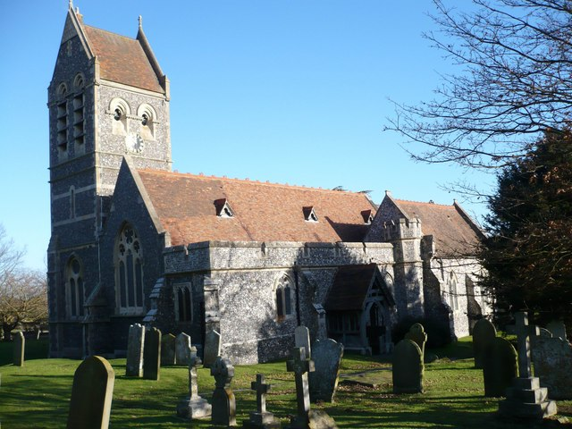 Ospringe church, near to Ospringe, Kent, Great Britain.